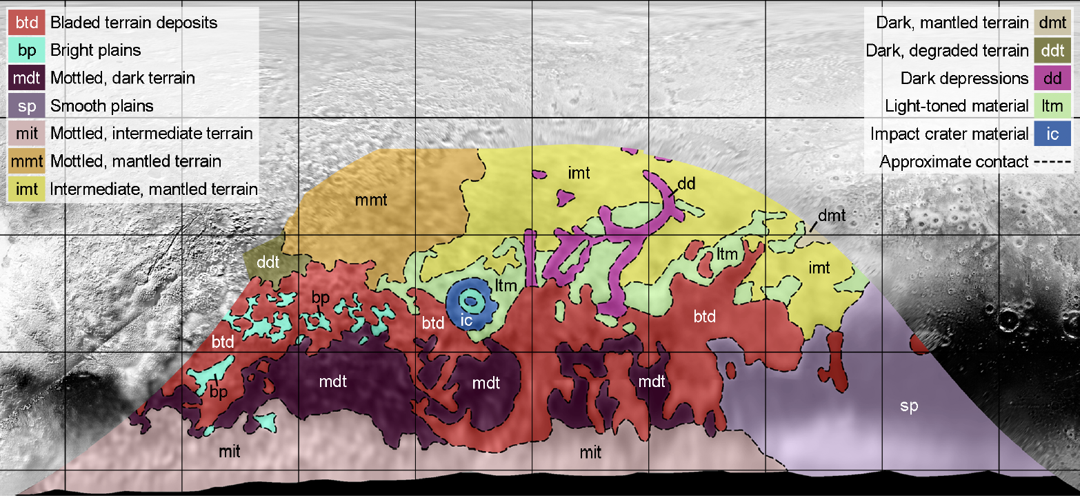 Pluto - Far Side Features - 2019[1][2][3] Geological map of Pluto’s far side showing geological units identified by analysis of New Horizons imaging, spectral, and limb topography data. Image References ↑ Dvorsky, George (October 23, 2019). "Fresh Look at New Horizons Data Shows Pluto’s ‘Far Side’ in Unprecedented Detail". Gizmodo. Retrieved on October 26, 2019. ↑ Gough, Evan (October 25, 2019). "New Horizons Team Pieces Together the Best Images They Have of Pluto’s Far Side". Universe Today. Retrieved on October 26, 2019. ↑ Stern, S.A. (2019). "Pluto’s Far Side". arxiv. Retrieved on October 26, 2019.